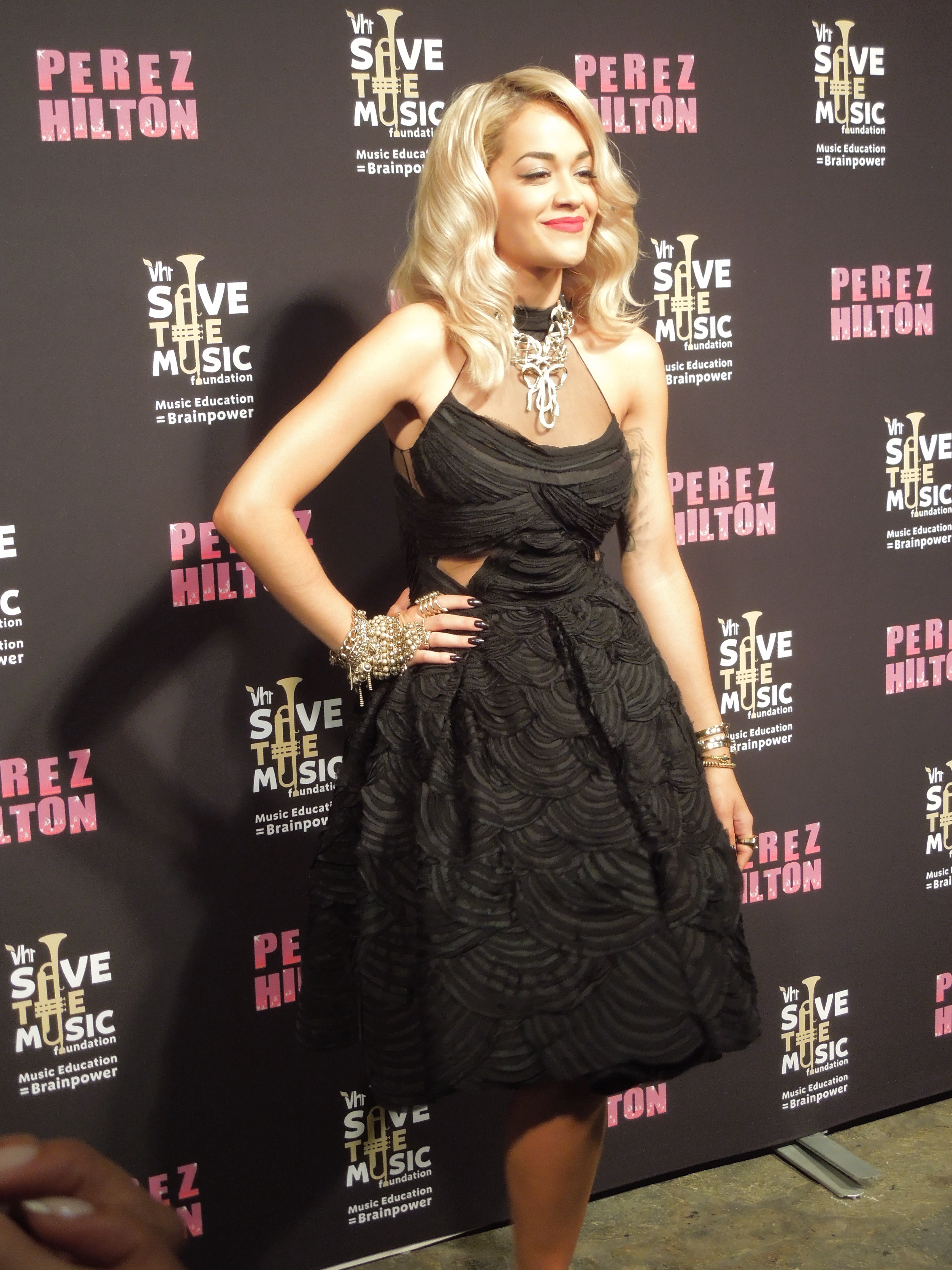 British songstress Rita Ora strikes a pose before she performs. (Sarah Mickelson/ Neon Tommy)